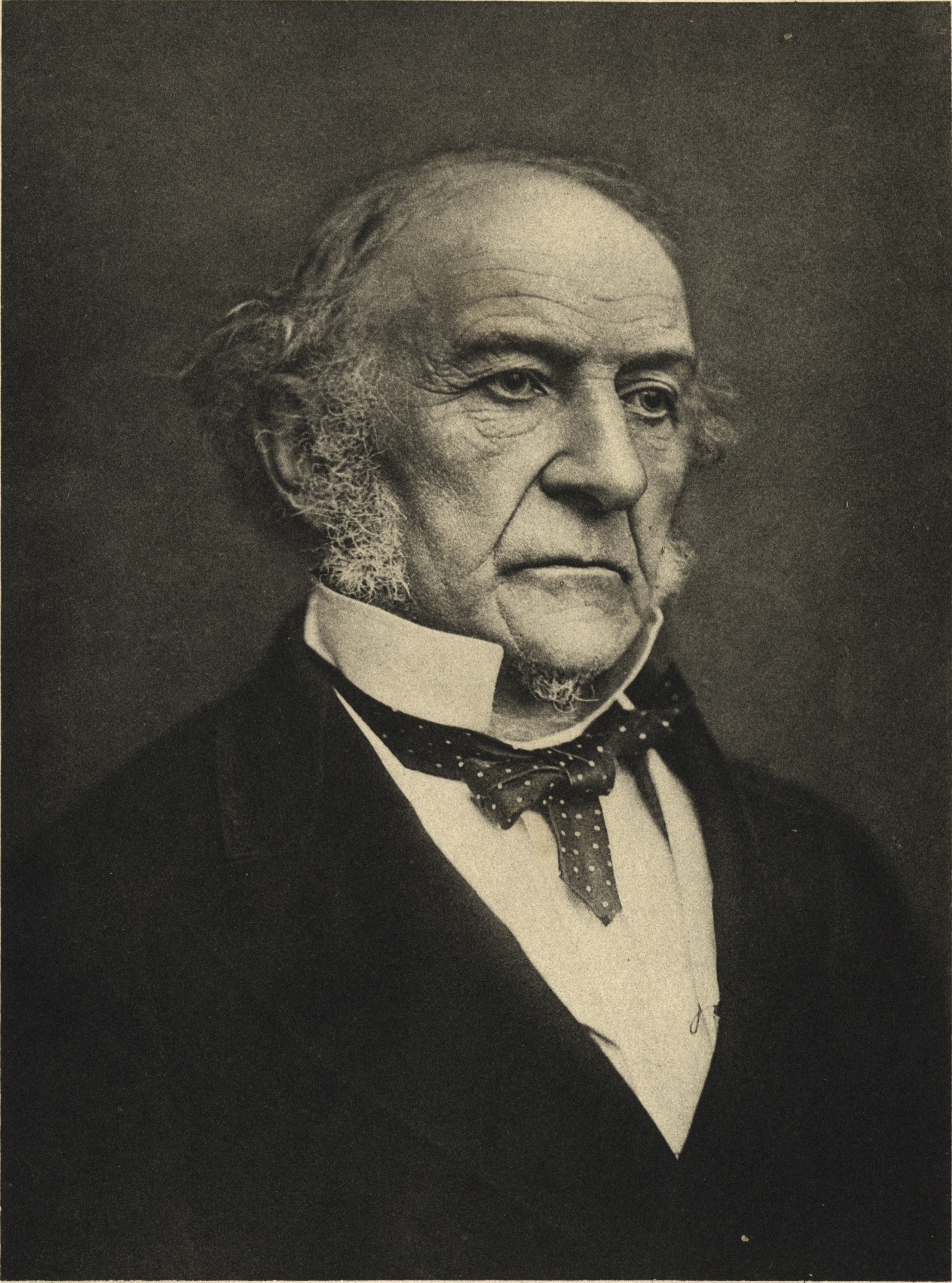 Portrait of William Ewart Gladstone (1809–1898)